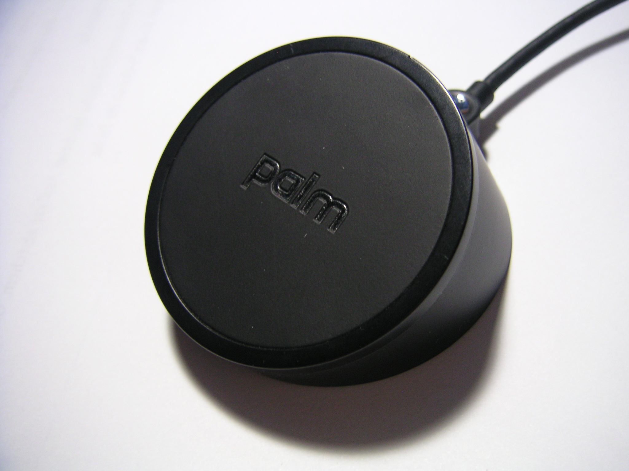 A Touchstone from Palm. It is used for wireless charging of Smartphones like the Palm Pre via electromagnetic induction.